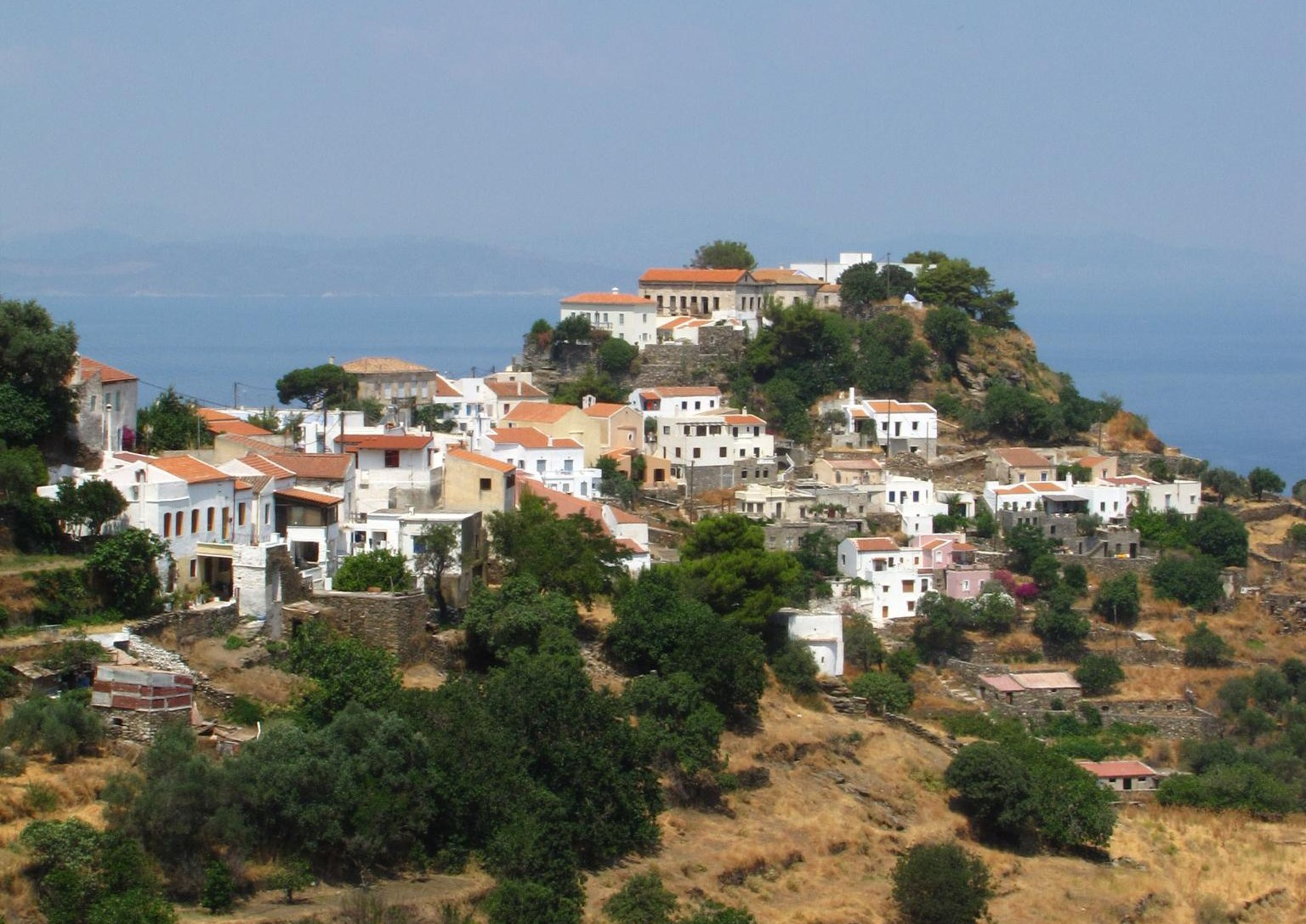 Ioulis, capital of the island Kea, ancient acropolis and lower town Kea (Greek: Κέα), also known as Gia or Tzia (Greek: Τζια), Zea, and, in Antiquity, Keos is an island of the Cyclades archipelago, in the Aegean Sea, in Greece. Its capital, Ioulis, is inland at a high altitude (like most ancient Cycladic settlements, for the fear of pirates) and is considered quite picturesque.